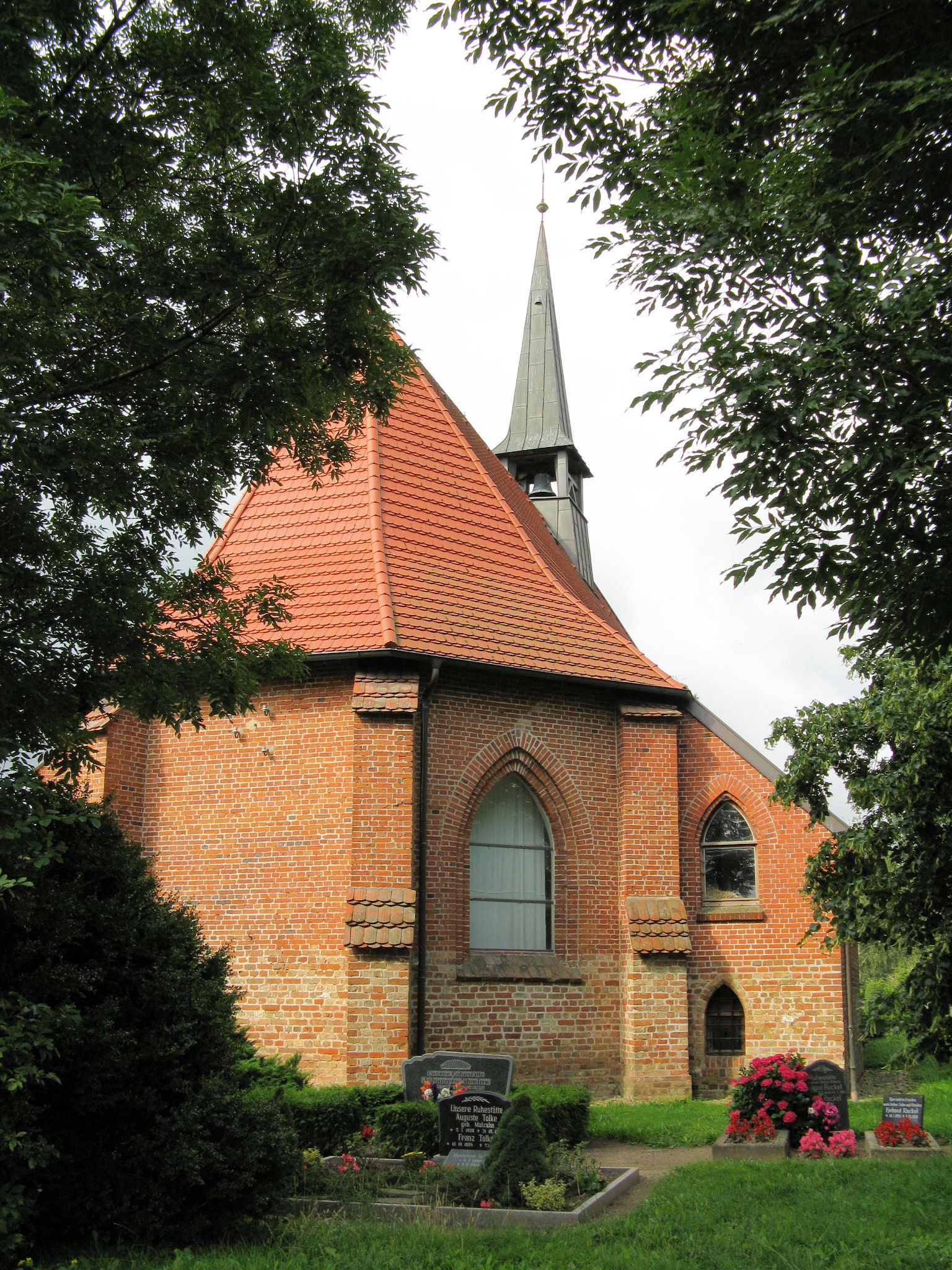 Church in Hohen Luckow, district Rostock, Mecklenburg-Vorpommern, Germany